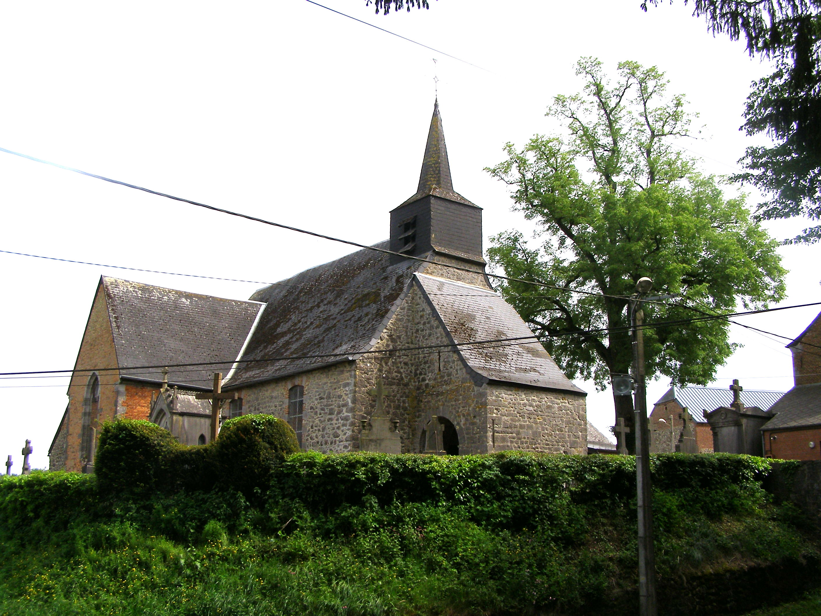 The church and cemetery Quiévelon.